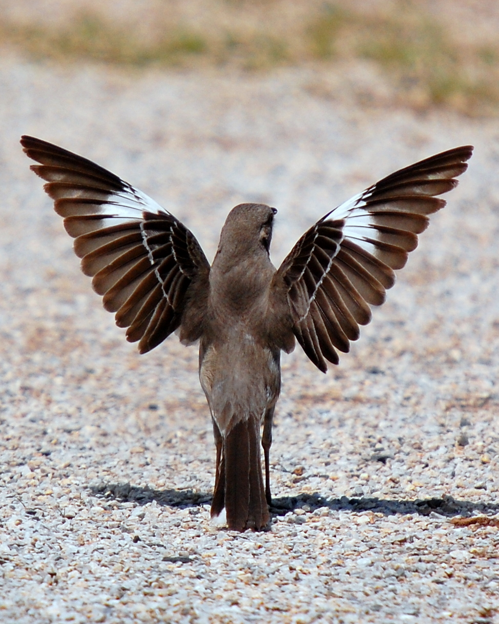 Northern Mockingbird